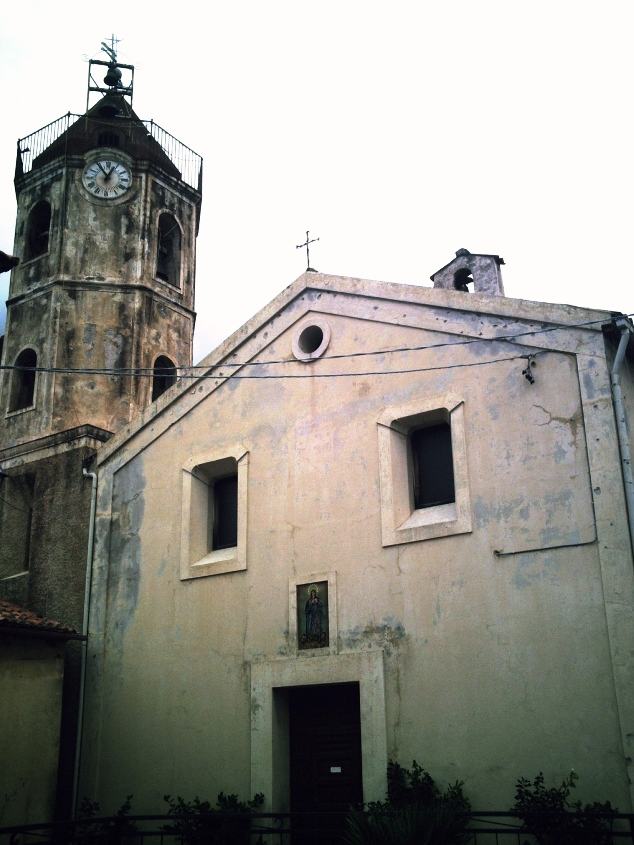 church of Acquafredda